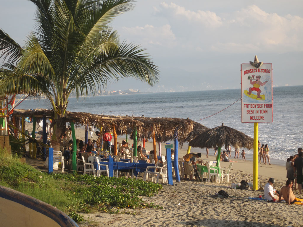 Beach at Bucerías. Taken by Greg Kullberg on December 29, 2009.